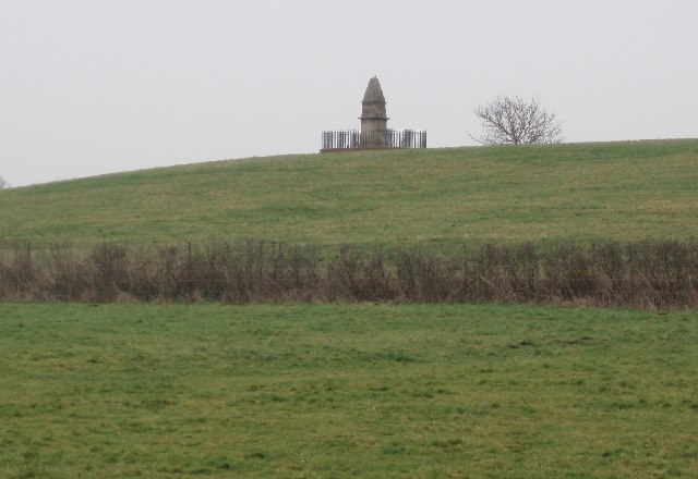 King Alfred's Monument: "On Athelney Hill this monument has been erected to commemorate where Alfred burnt the cakes (allegedly!). Rising majestically above the Somerset Levels to a height of 12 metres this must be one of the lowest hills in the country."